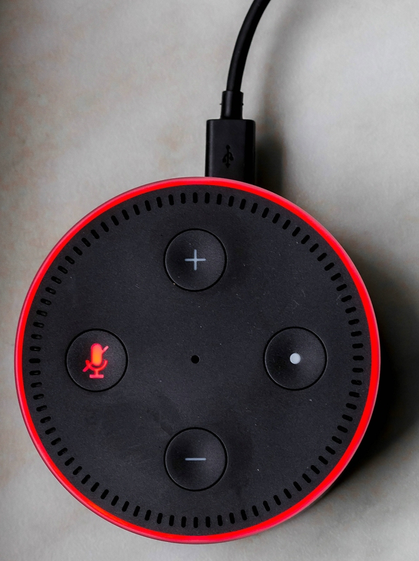 amazon Echo Dot. Mandatory mains connection via micro USB cable at the top (next to the AUX output, which is not visible in the photo). Light ring in status: microphone off. Left: Microphone-off button, right: Action button, up and down: volume up and down button.